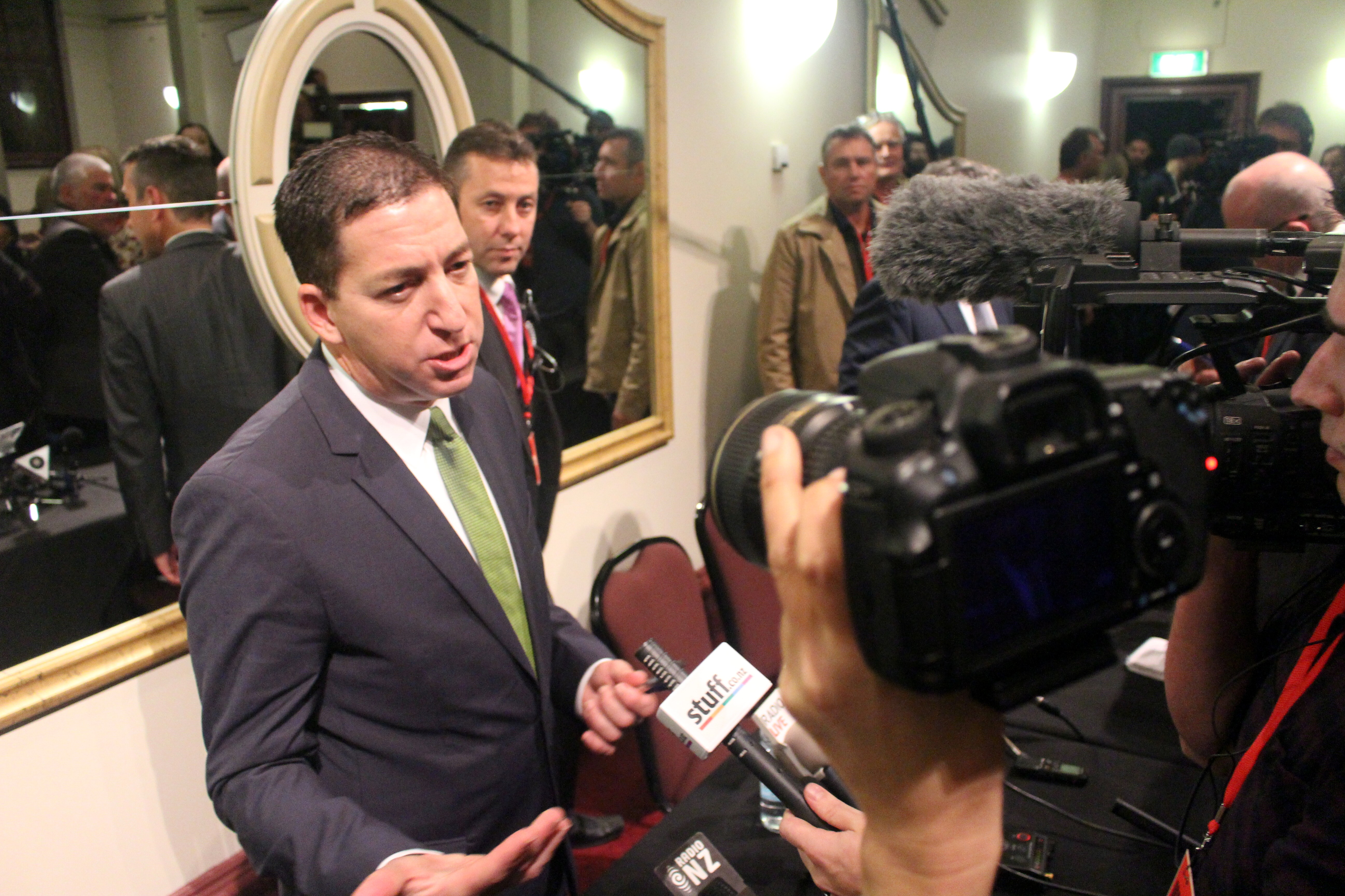 Glenn Greenwald at the Moment of Truth event in Auckland, NZ, September 2014.